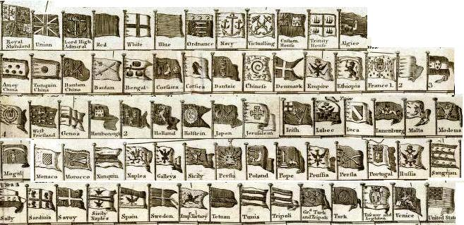 (Composite of) Europe divided into its empires, kingdoms, states, republics, &c. By Thos. Kitchin, Hydrographer to the King, with many additions and improvements from the latest surveys and observations. London, published by Robt. Sayer, Fleet Street, as the Act directs, Jany. 1st, 1787